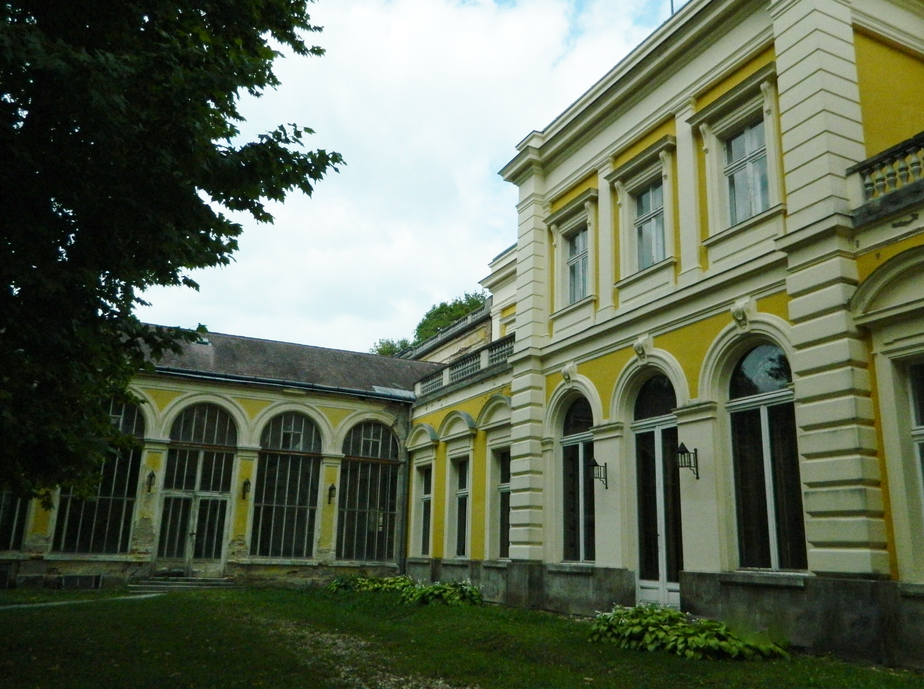 Károlyi Mansion, Füzérradvány This is a photo of a monument in Hungary. Identifier: 2768